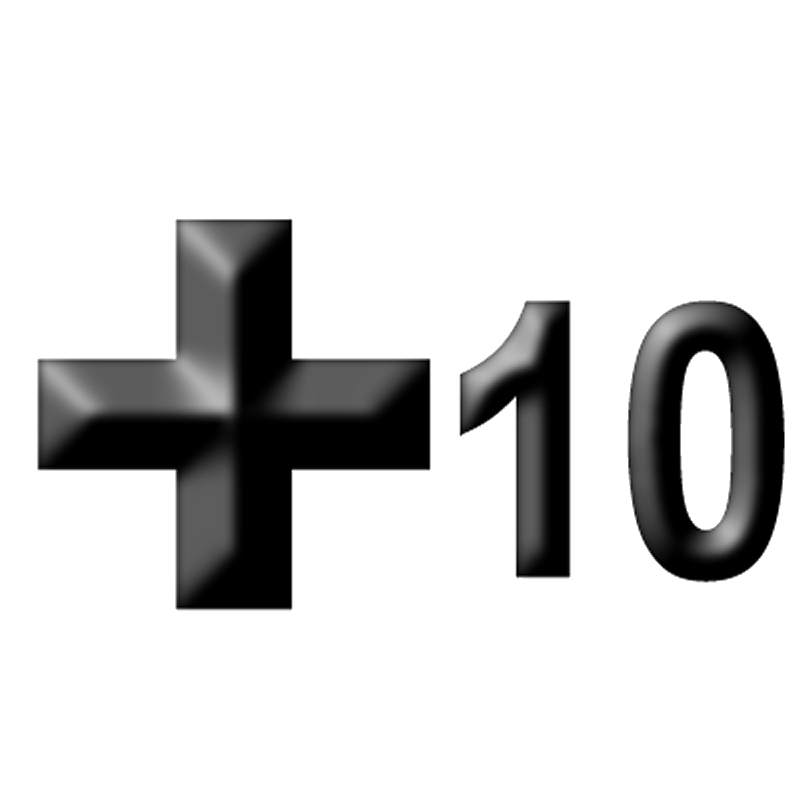 HURRICANE SIGNAL NO. 10